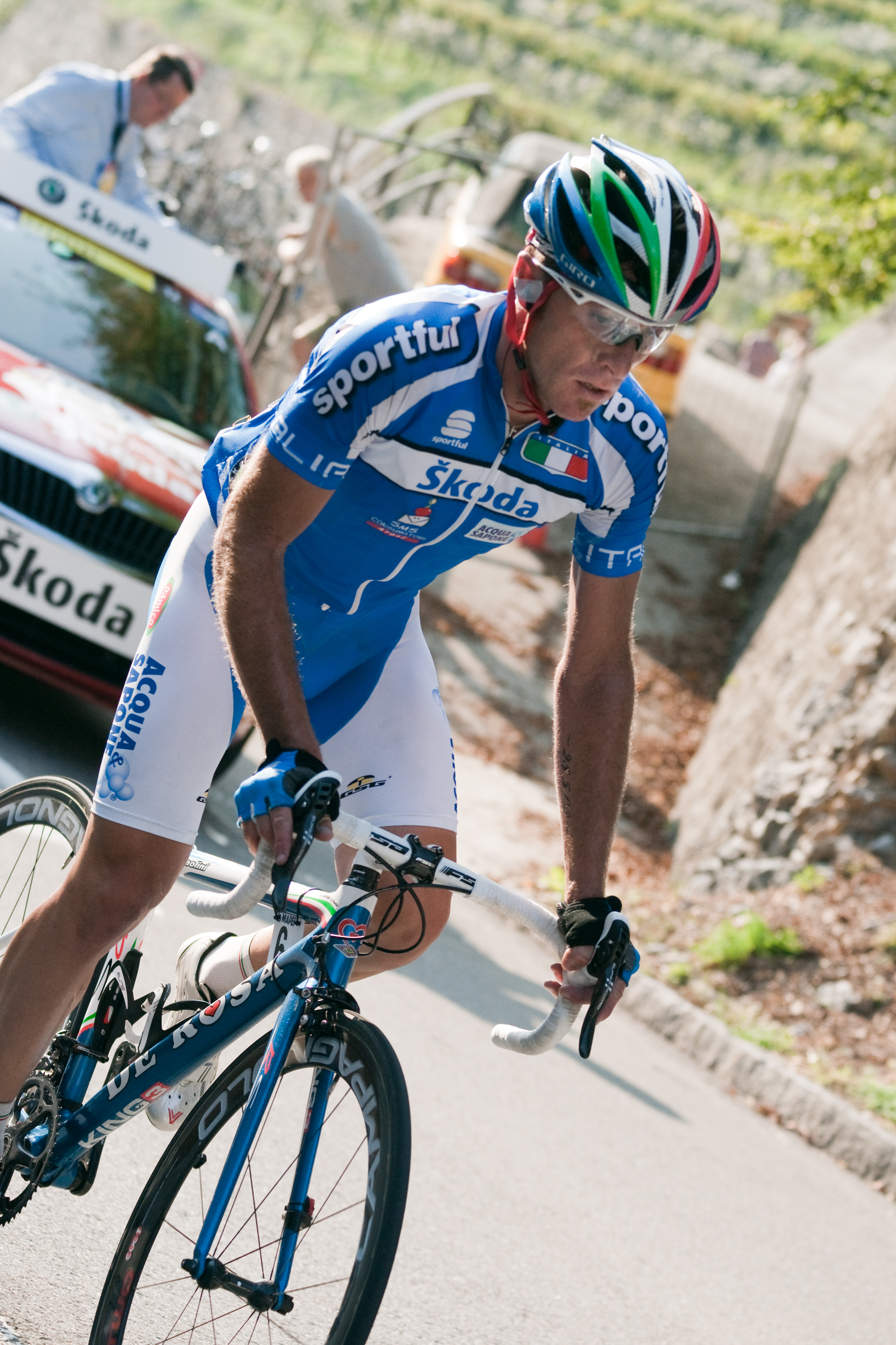 Luca Paolini during the 2009 UCI Road World Championships in Mendrisio, Switzerland.